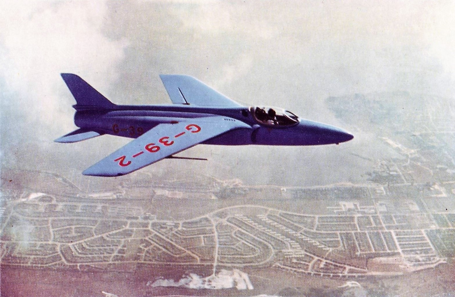 The Folland Gnat prototype, serial number G-39-2, which first flew on 18 July 1955.